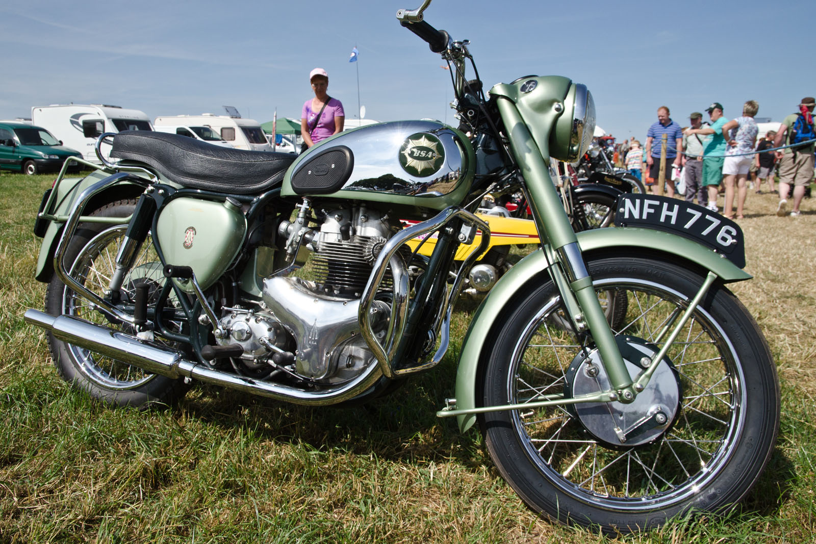 Cheshire Steam Fair 14/07/2013